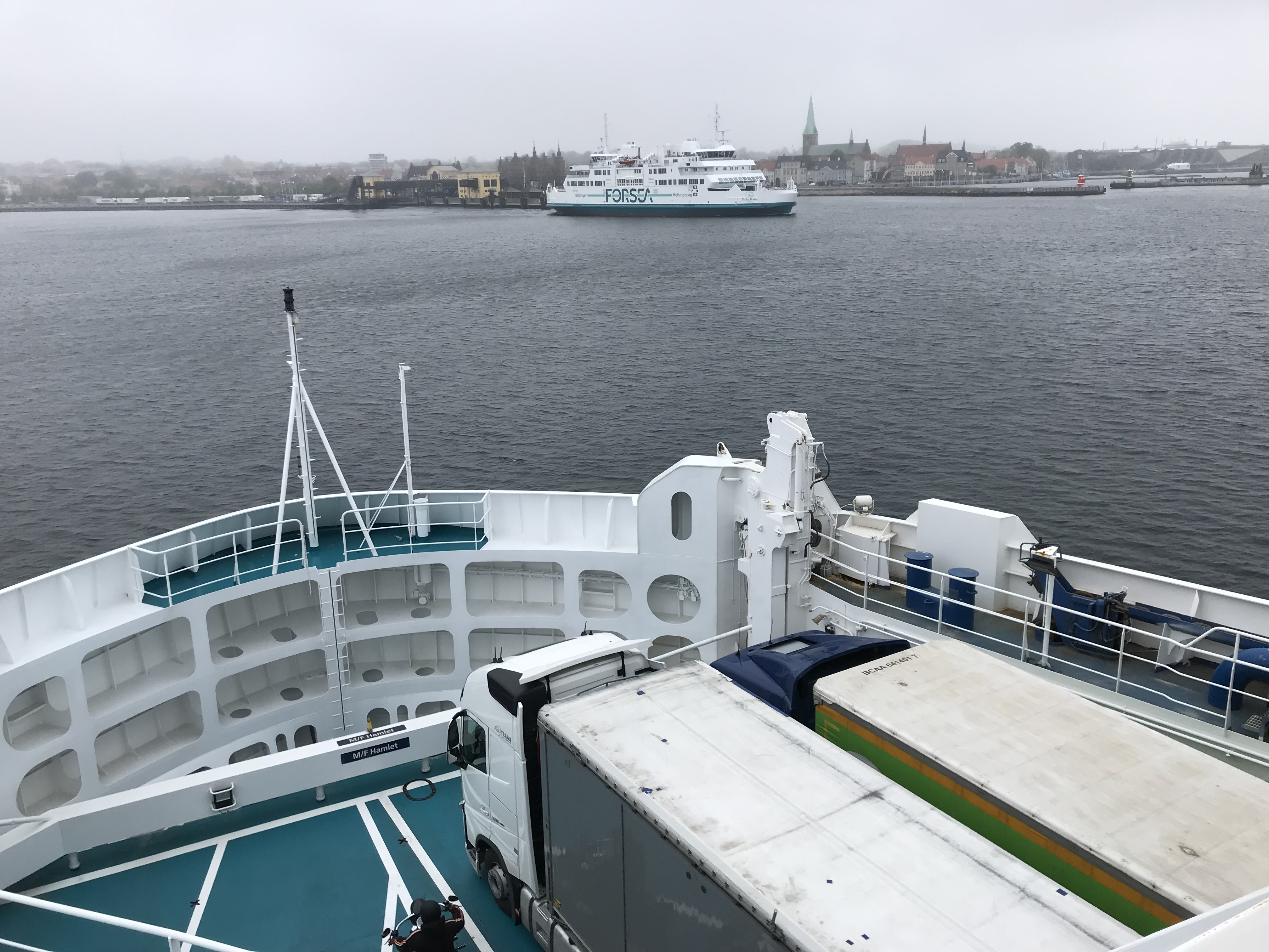 M/S Hamlet on her way towards Helsingor harbour meets with M/S Tycho Brahe, May 22, 2019.